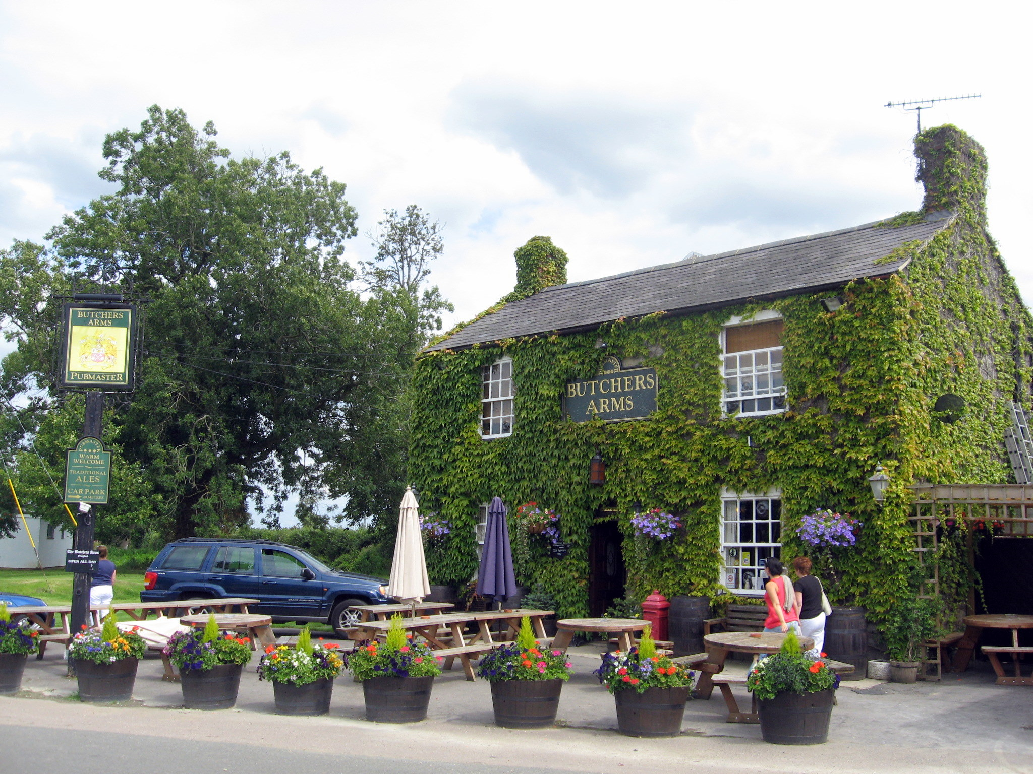 Butchers Arms, Fringford, Oxfordshire